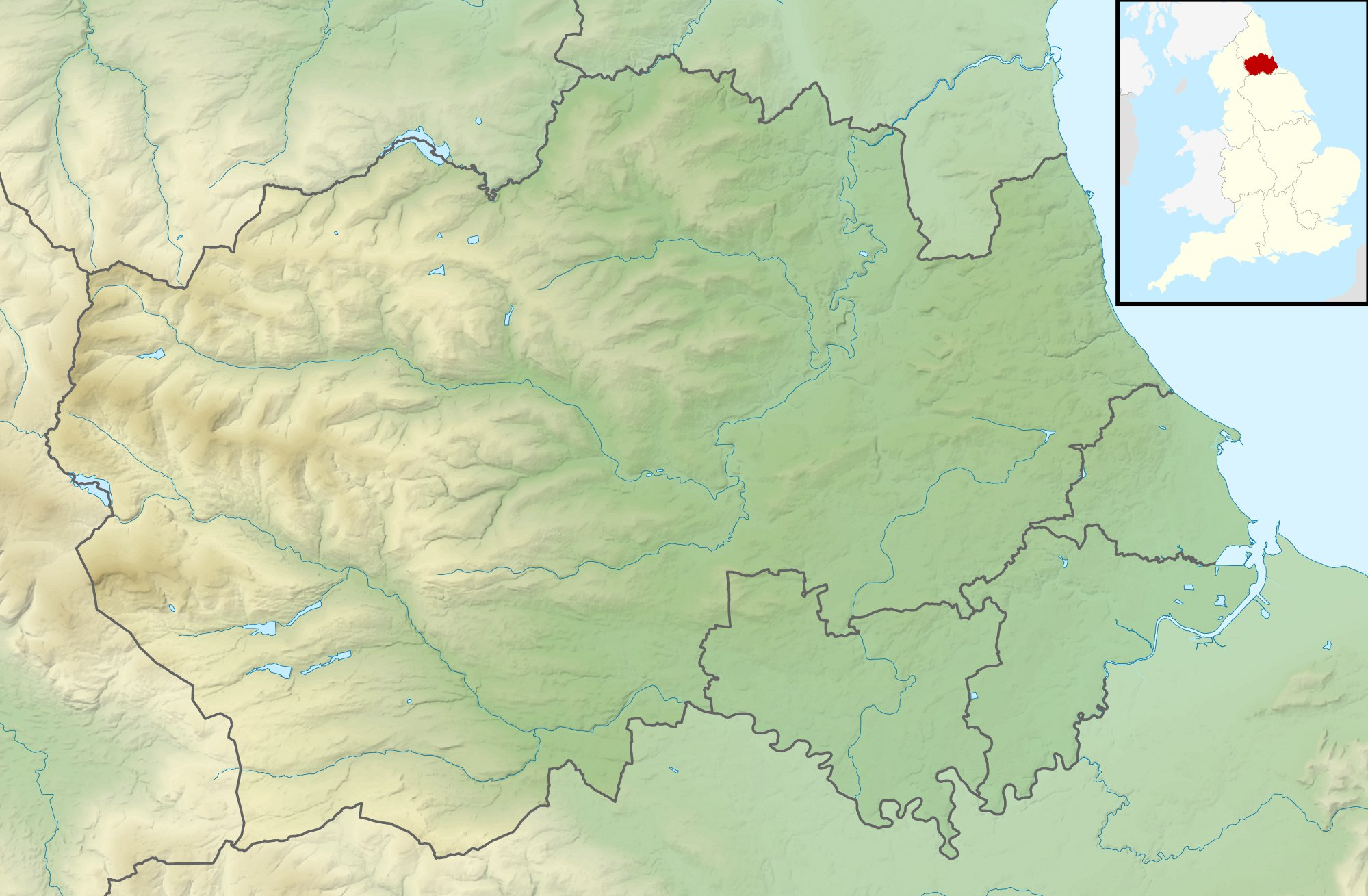 Relief map of County Durham, UK. Equirectangular map projection on WGS 84 datum, with N/S stretched 170% Geographic limits: West: 2.40W East: 1.05W North: 54.95N South: 54.43N